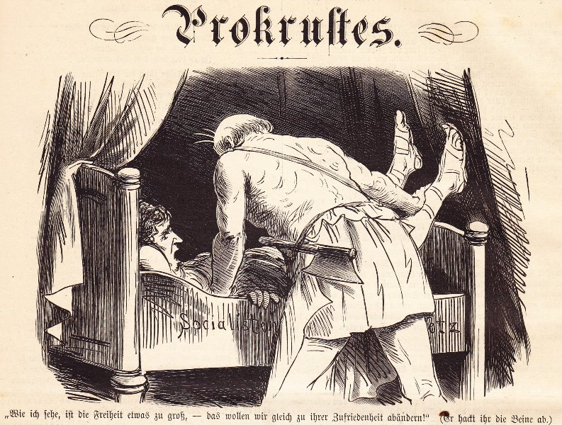 Caricature from 19th century German satirical magazine "Berliner Wespen" (Berlin Wasps) - Title: Procrustes. Caption: Bismarck: As I see, Lady Liberty is somewhat too large - we want to change this immediately to her contention. (He chops away her legs.) - Inscription on bed: Socialist Law.